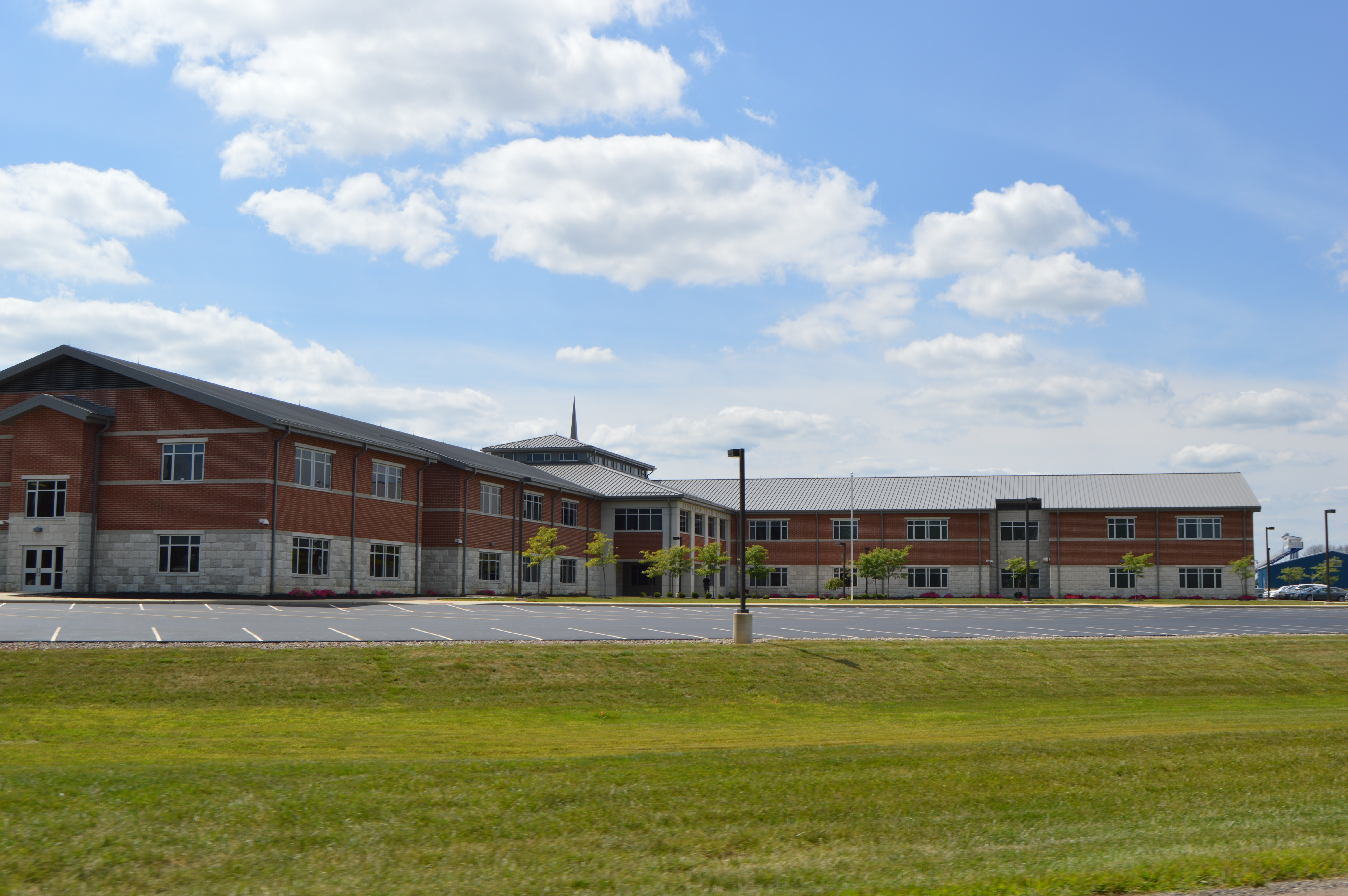 Overview of the front of Highland High School, located along State Route 314 just west of Sparta in South Bloomfield Township, Morrow County, Ohio, United States.